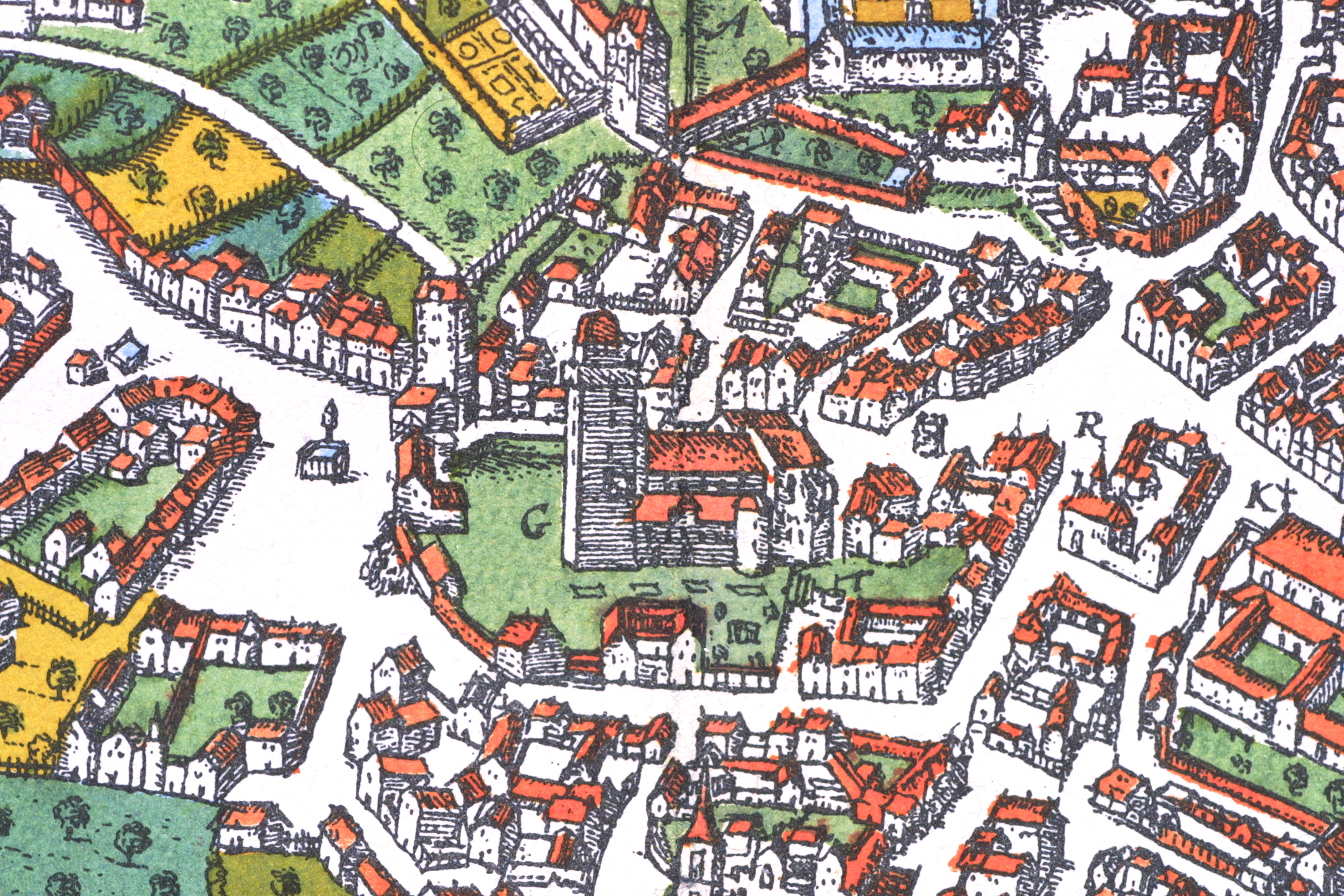 historical map of the German town of Bamberg by Georg Braun and Franz Hogenberg (between 1572 and 1618)